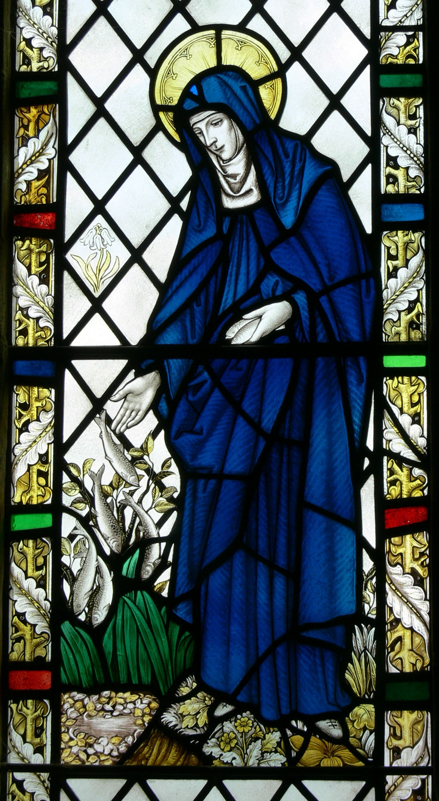 Our Lady and Saint Non's chapel ( St Davids, Wales ). Stained glass window ( 1934 ) showing Saint Bride ( Brigid of Kildare ).